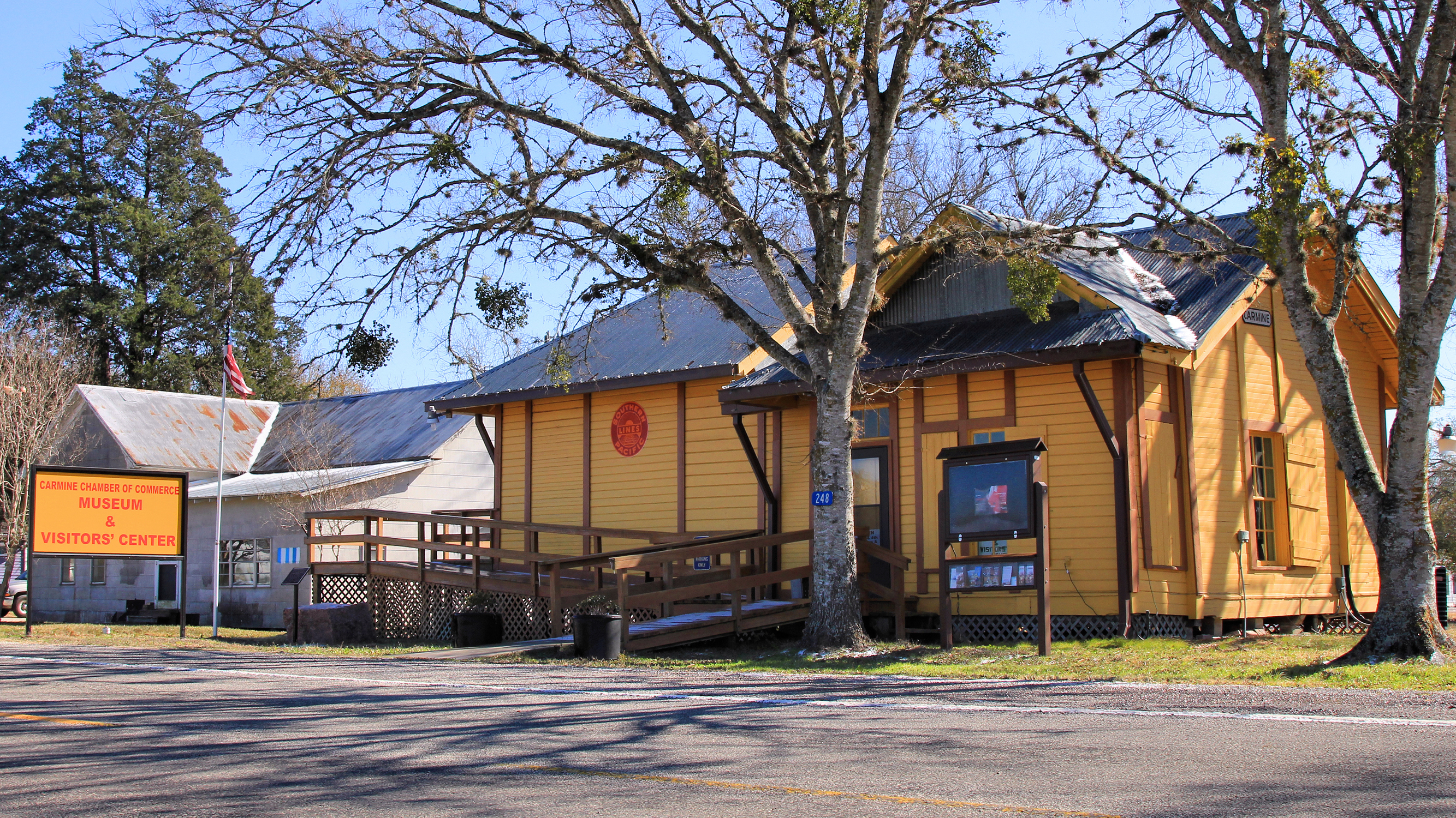 The Chamber of Commerce, Museum and Visitor Center in Carmine, Texas, United States is in the former train station.